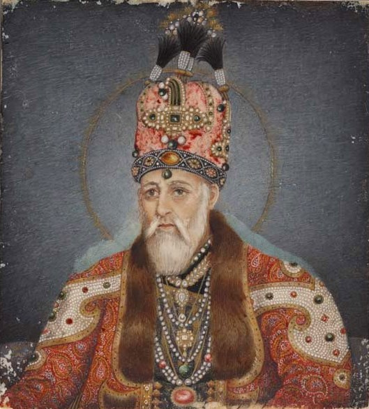 Portrait painting of Akbar II.